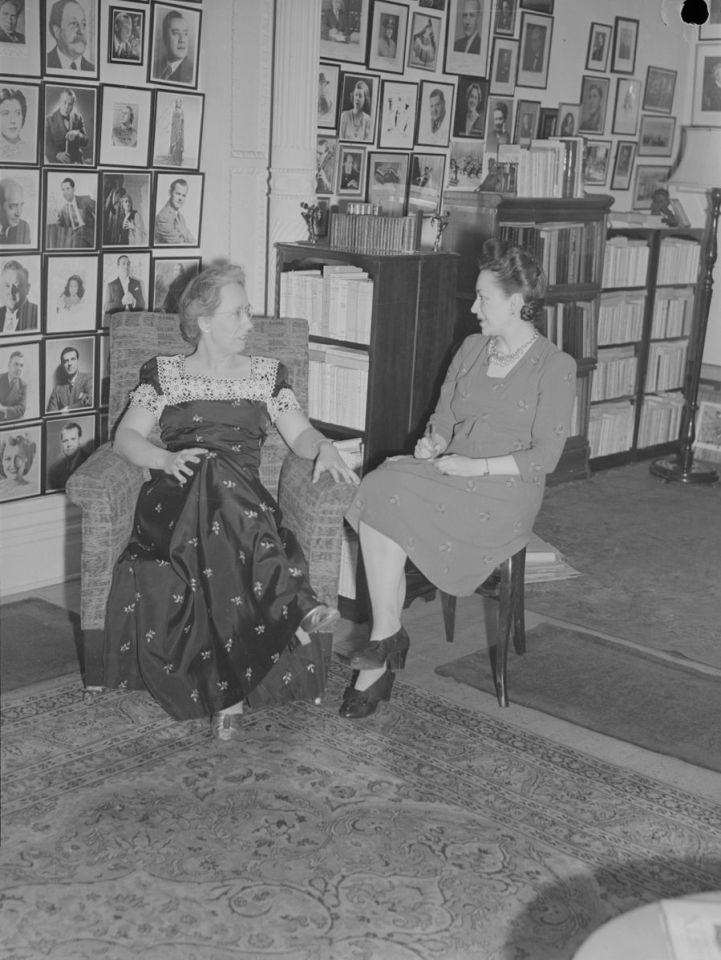 Lucille Desparois visits the Marie-Thérèse Paquin pianist who lives Lorimier Avenue in Montreal. The walls of the room in which they are located are covered with portraits.